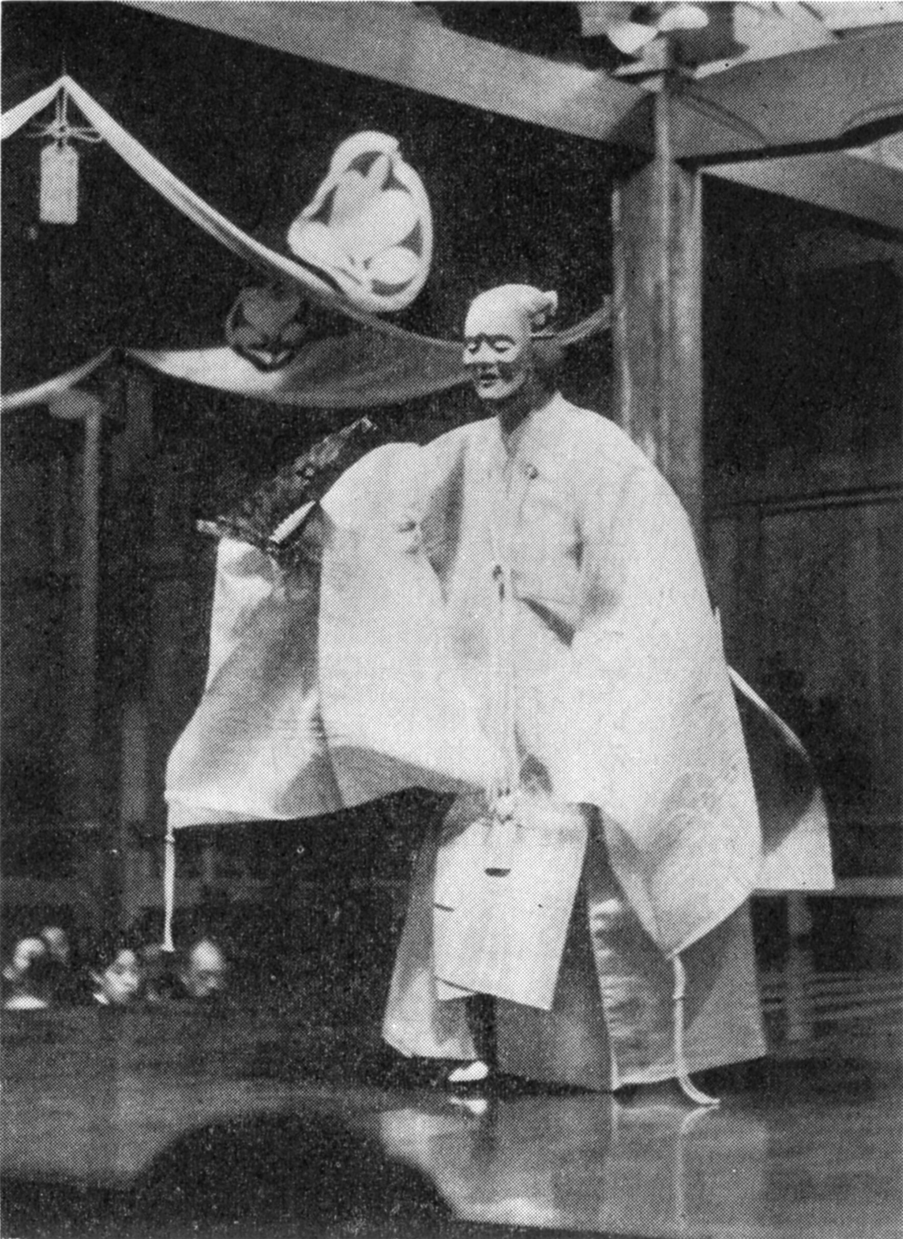 KANZE Sakon(1895 - 1939), Obasute